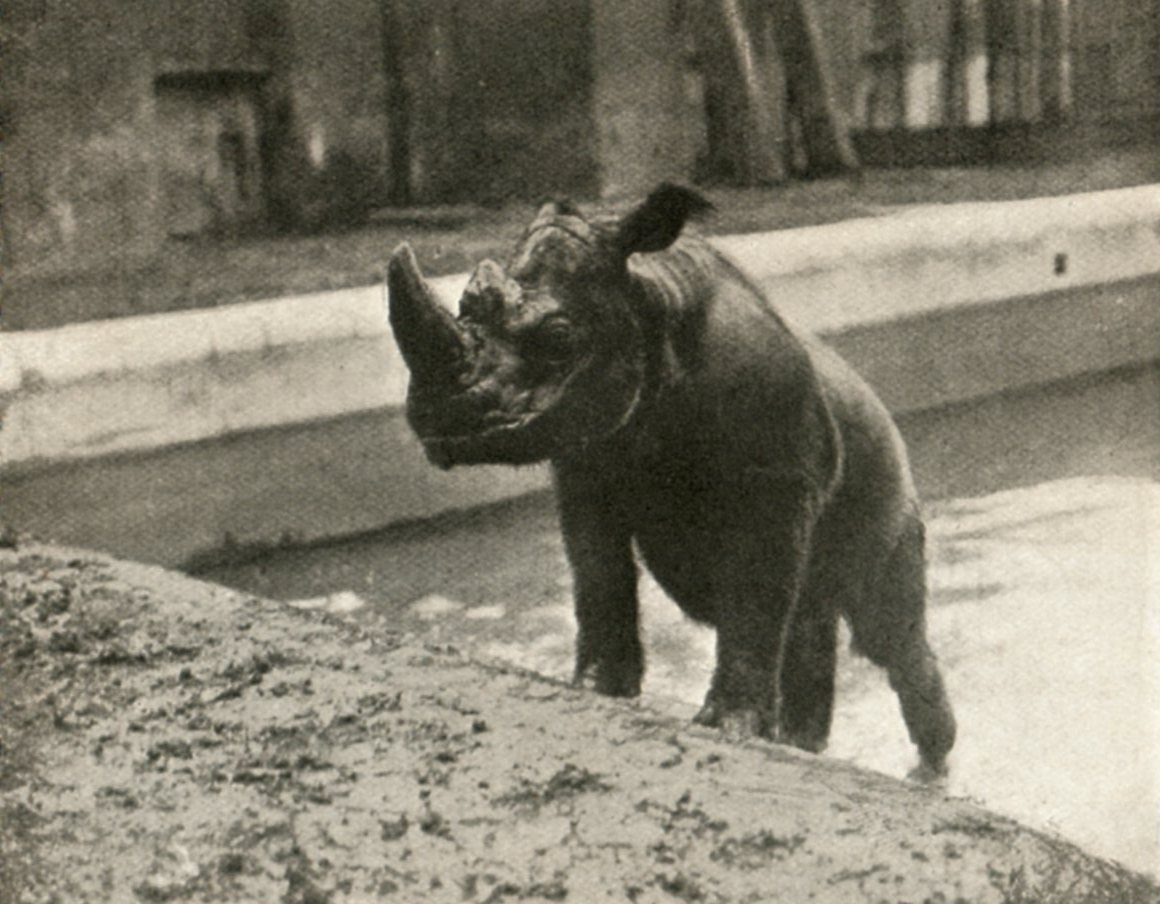 Jackson, a male specimen of the extinct Dicerorhinus sumatrensis lasiotis, London Zoo. [1][2]